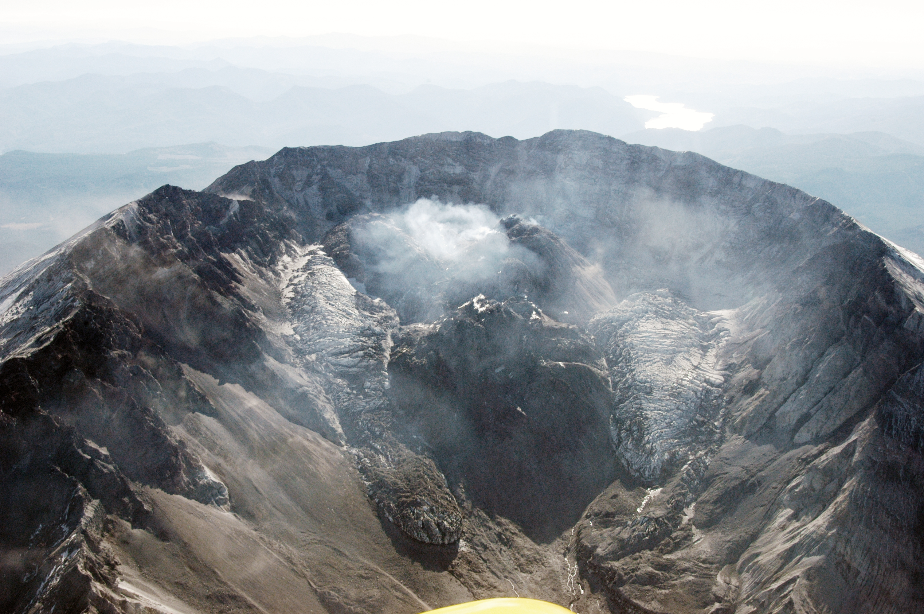 Mount St. Helens and Crater Glacier, Cascade Range, Washington, United States